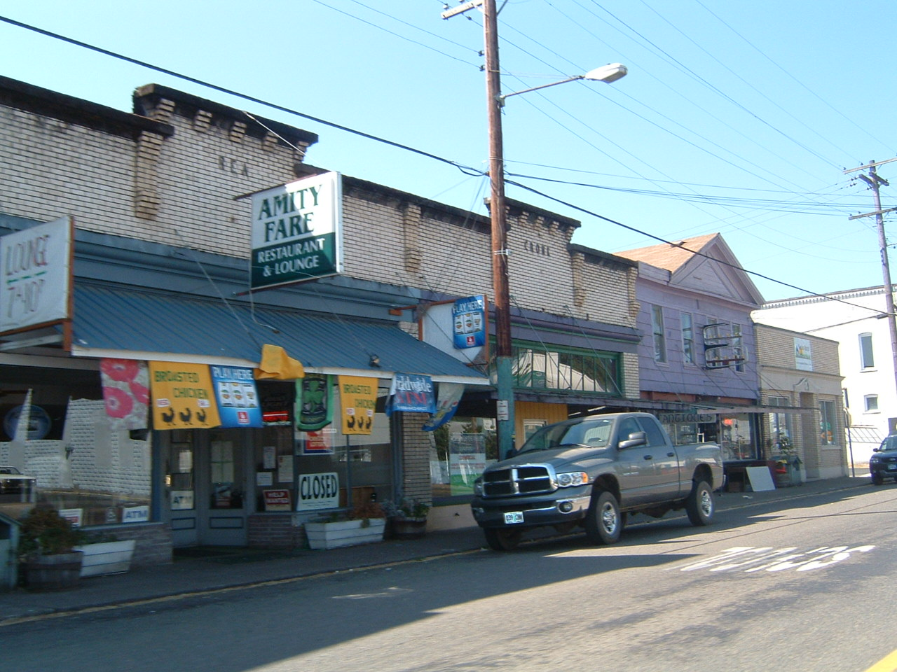 Amity, Oregon, USA.